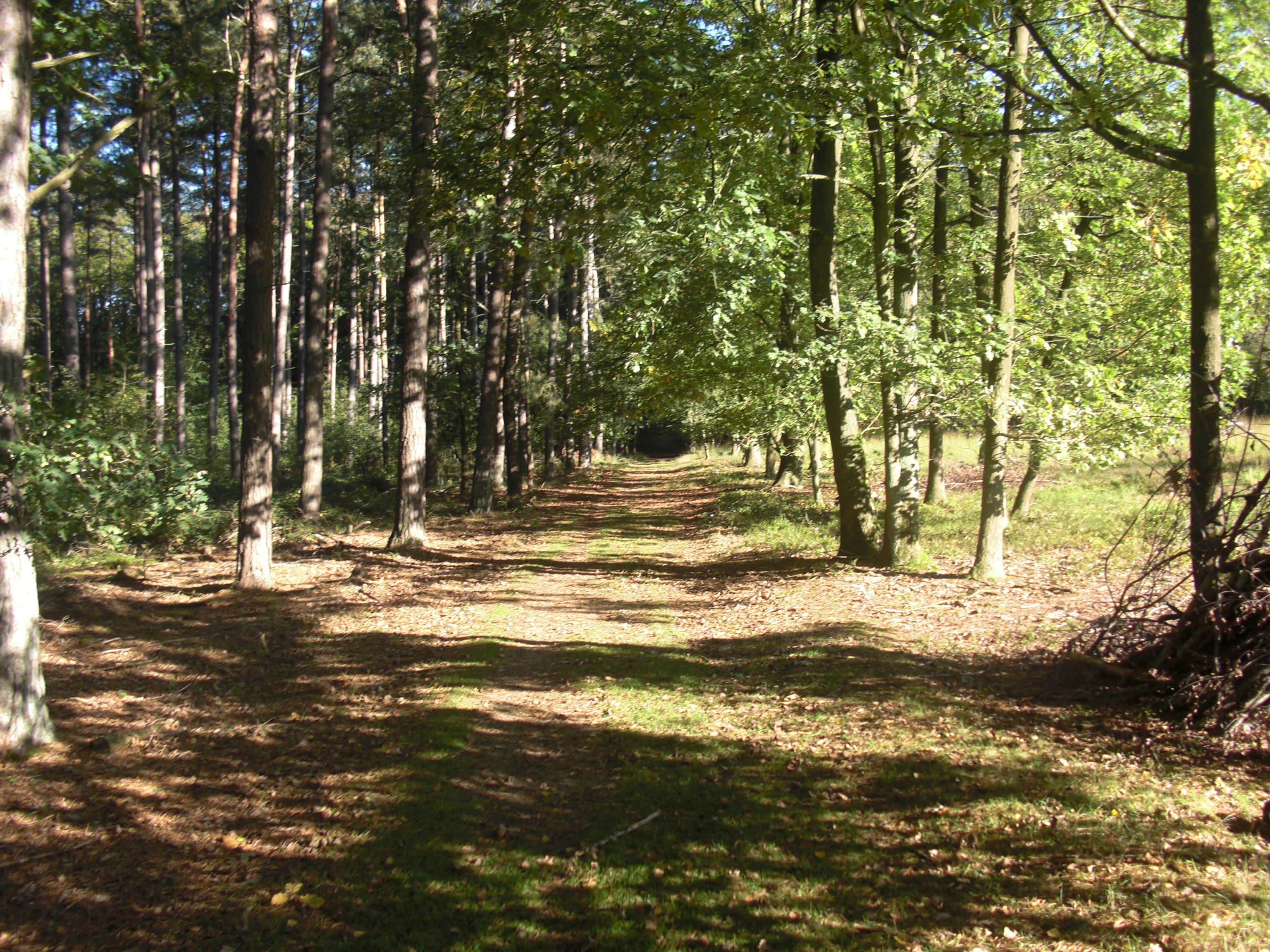 Rodebos and Laan Valley Natural Reserve, in the village of Sint-Agatha-Rode, Belgium